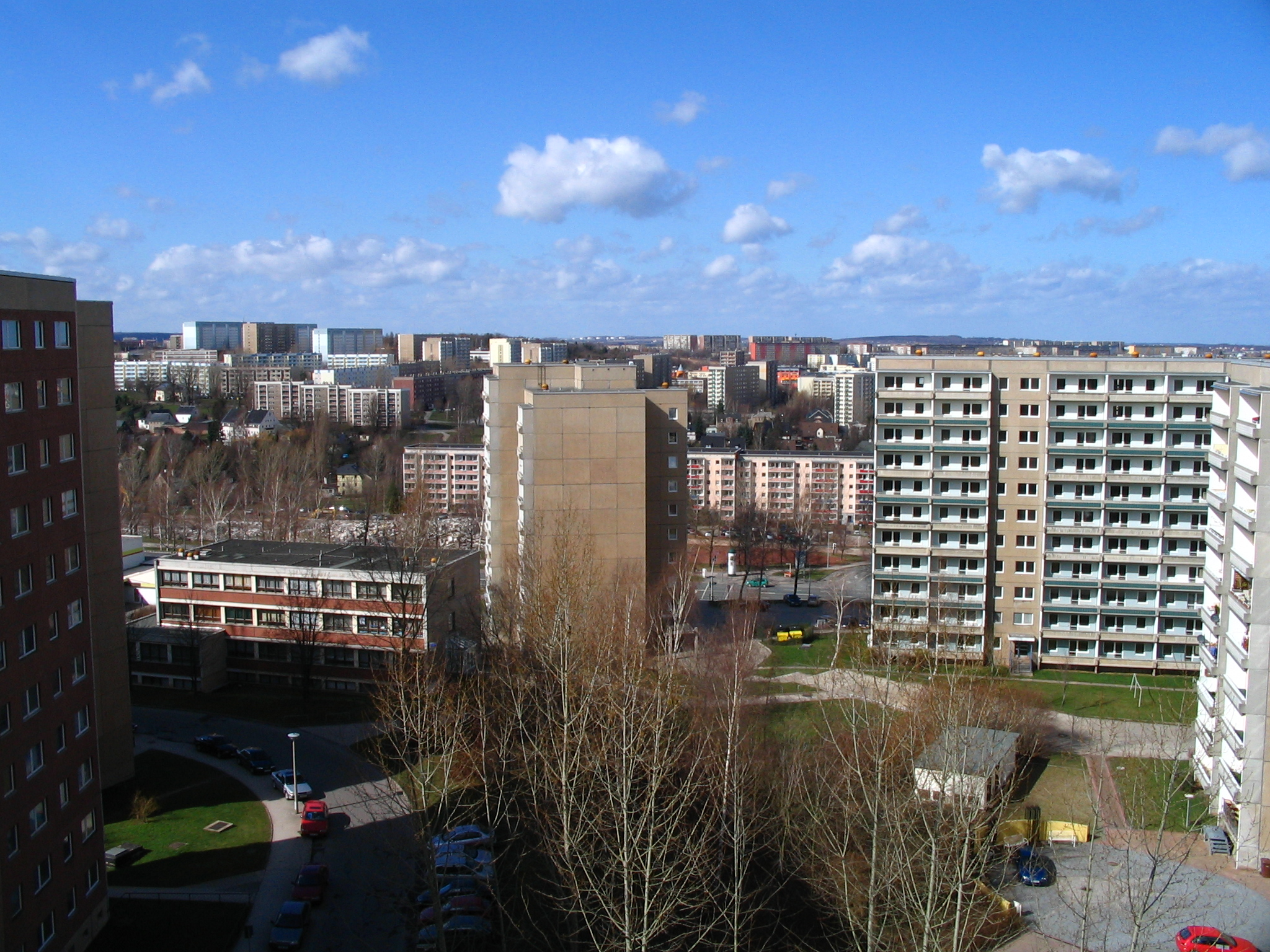 This image shows a panorama photo of the residential area "Fritz-Heckert" in Chemnitz (Saxony, Germany)